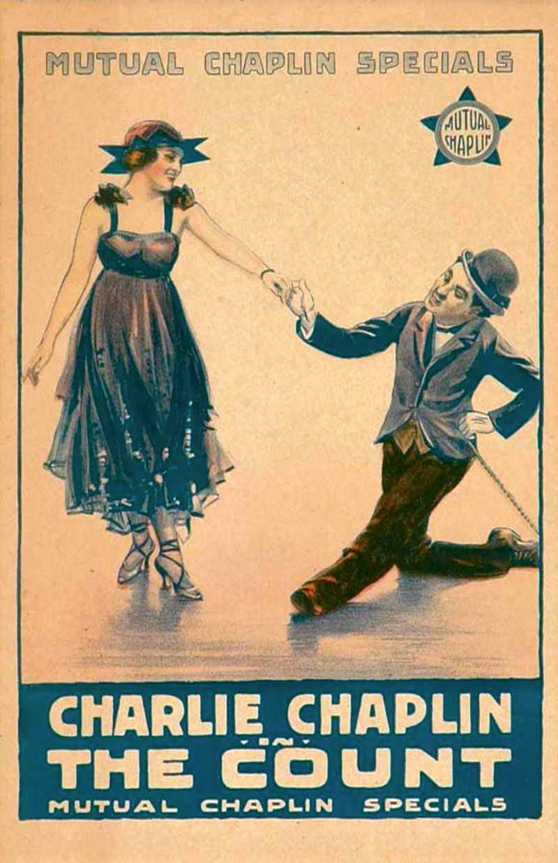 Poster for the American comedy short film The Count (1916).